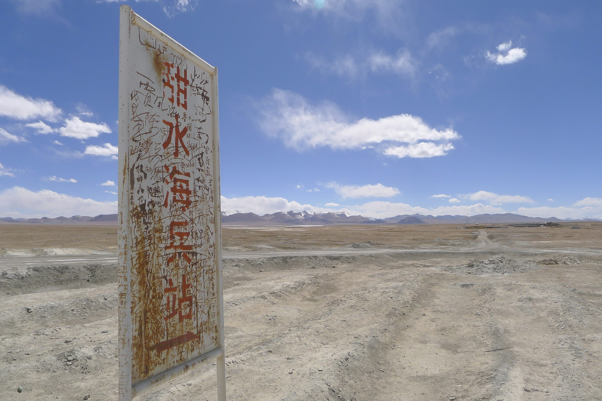 Tianshuihai Army Service Station Signage